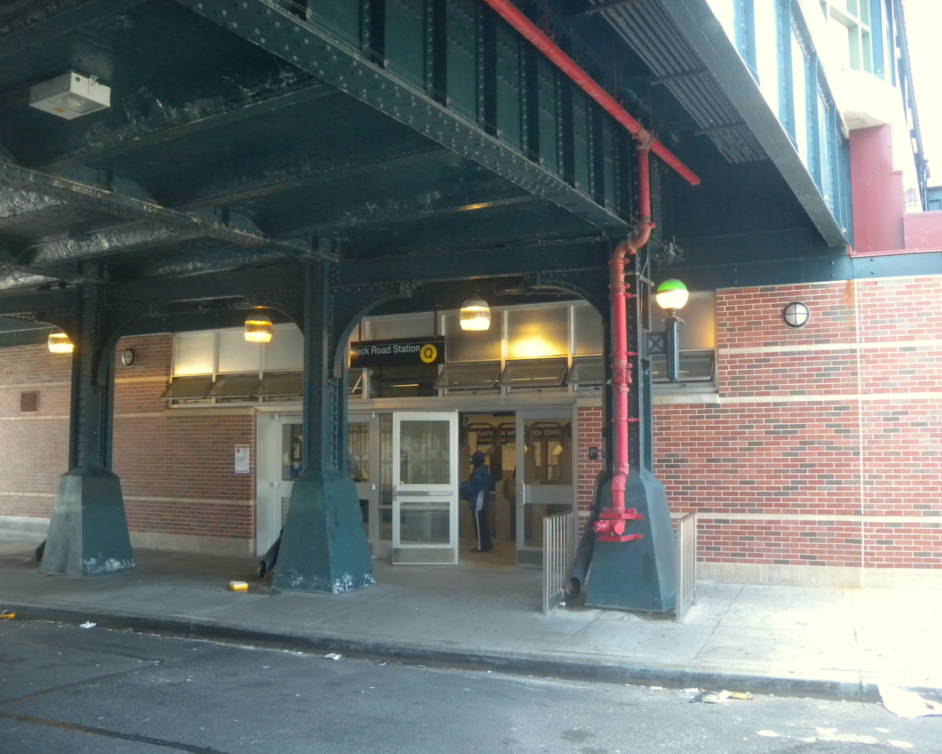 Looking northwest from Gravesend Neck Road on a mostly sunny afternoon.